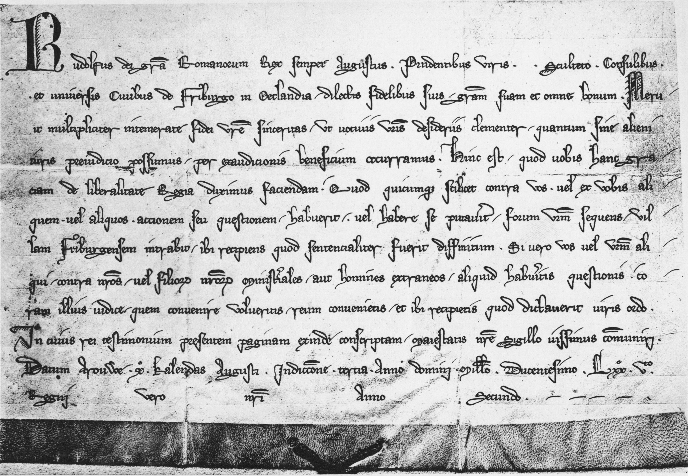 A charter of king Rudolf I of Germany for the citizens of Fribourg. Fribourg (Switzerland), Staatsarchiv, Diplom 41.